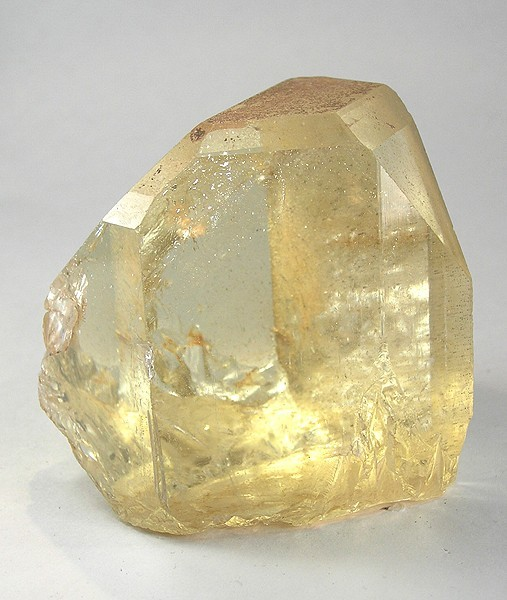 Topaz Locality: Bahia, Northeast Region, Brazil (Locality at ) Size: 8.5 x 7.7 x 7.3 cm. This huge doubly-terminated gem topaz crystal weighs in at a whopping 912 grams! It is glassy through and through, and complete all around. The faces are sharp and regular, and the crystal shows very good symmetry and its best faces from one side in particular, so there is a really good display side for show. Your first glance at this beast, it looks pretty good and nearly undamaged.